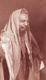 Saudi Arabia Actors Mohammed Al-Mfarah in Seventies.